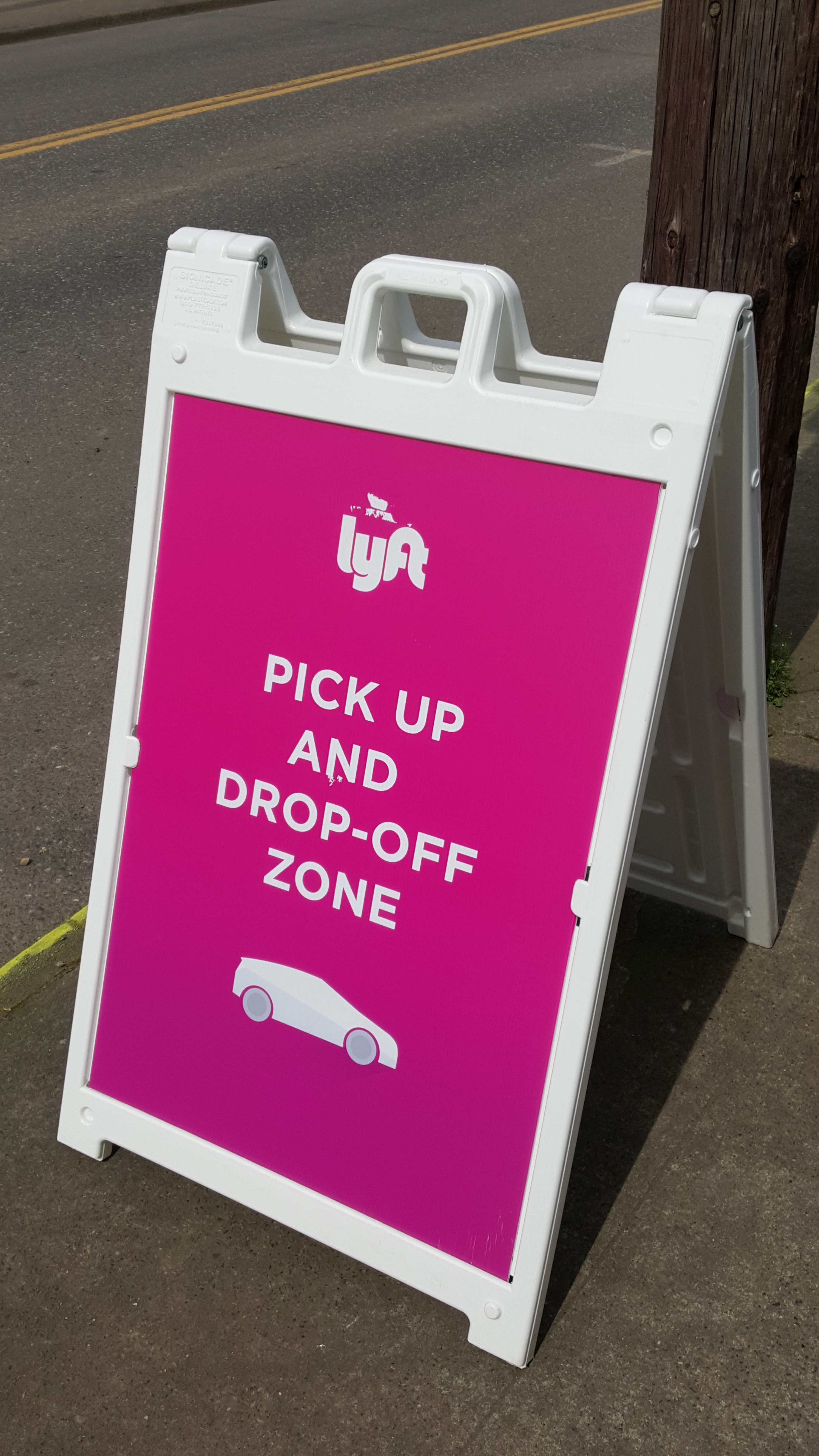 Lyft sign in north Portland, Oregon, 2016